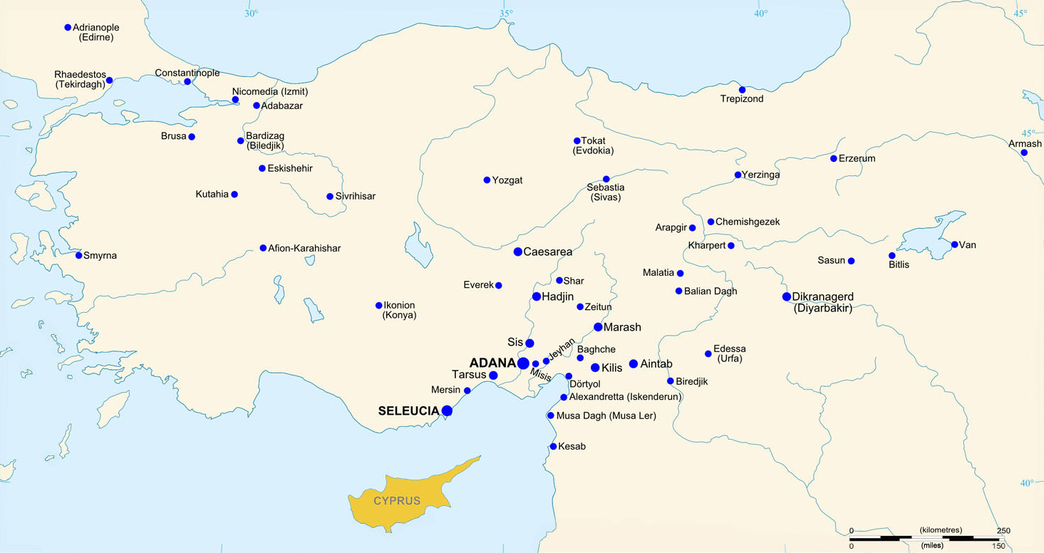 Places of origin of Armenian-Cypriots.The data comes from a survey of Archbishop Bedros Saradjian in 1935